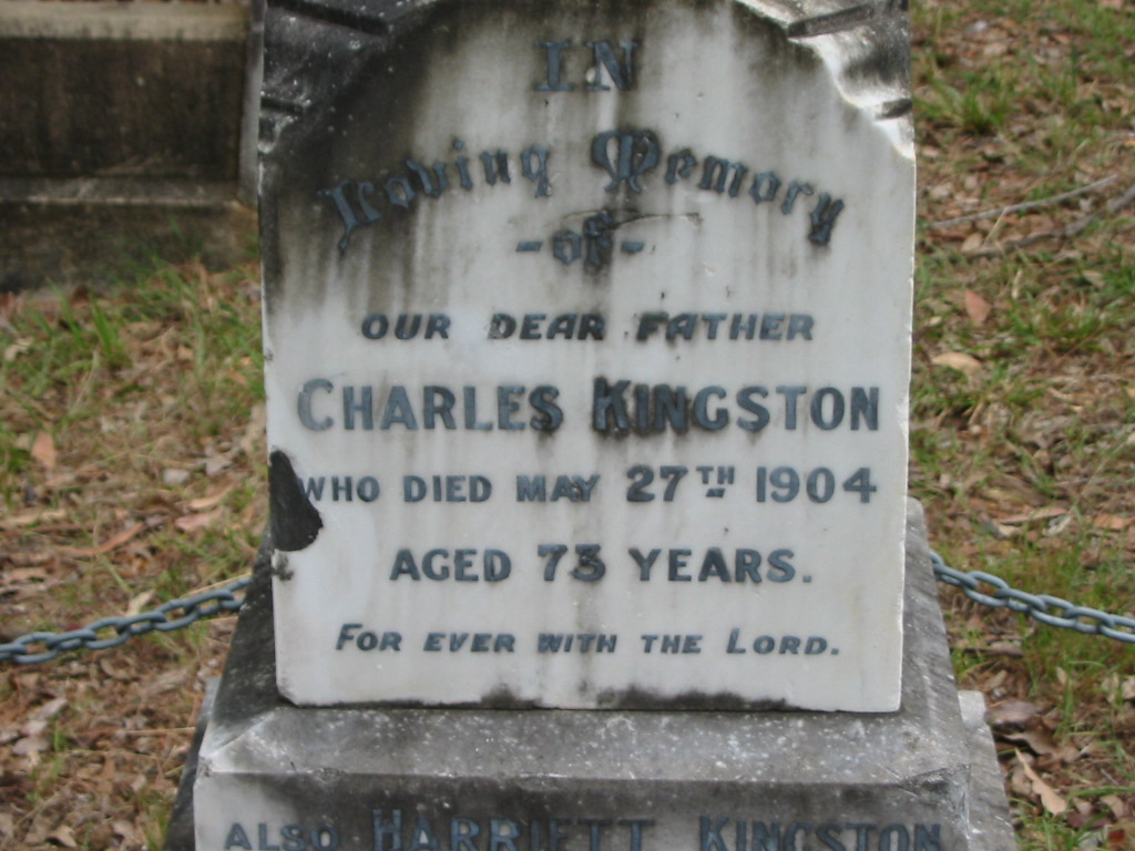 Charles Kingston headstone, Kingston Pioneer Cemetery, 2006